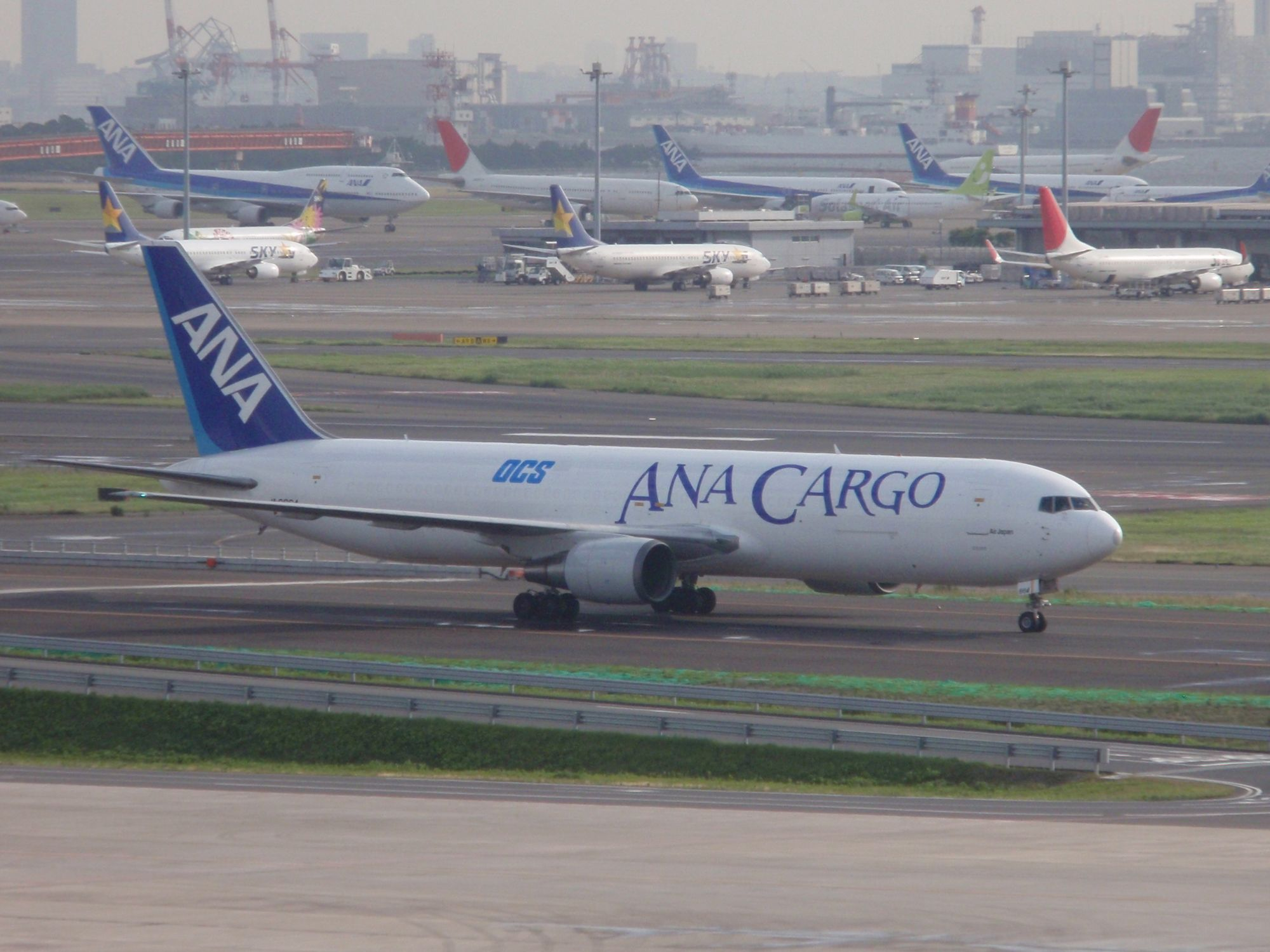 All Nippon Airways Boeing767-381ER/BCF(JA8664) at Tokyo Int'l Airport